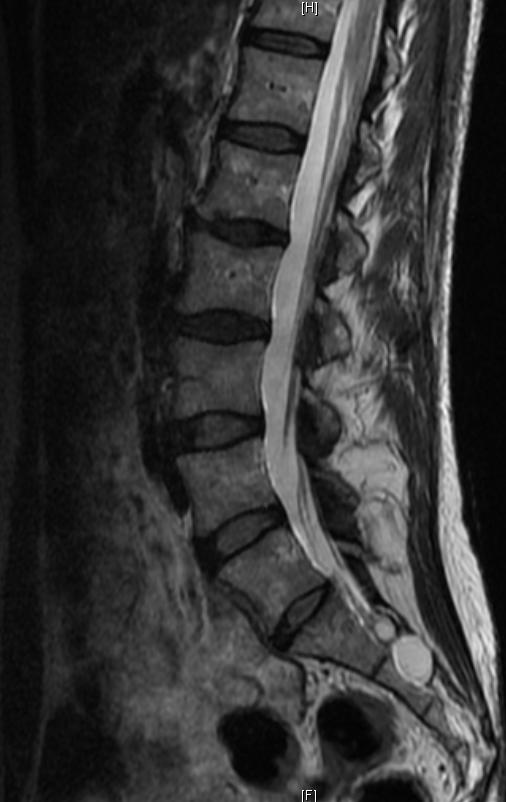 Tarlov's cyst, MRI